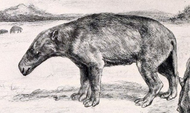 Cropped image of taxon in file name